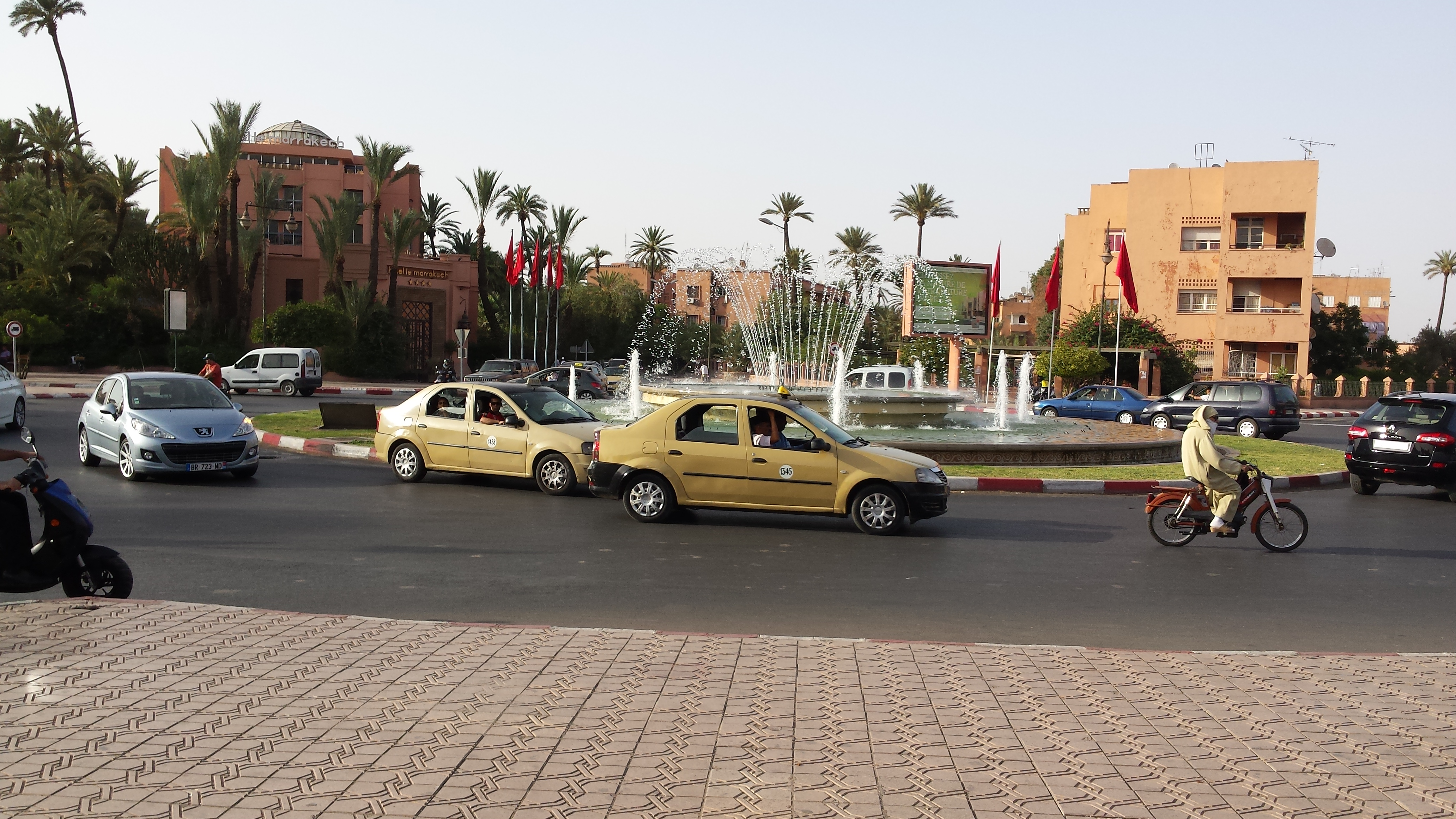 Marrakesh Street